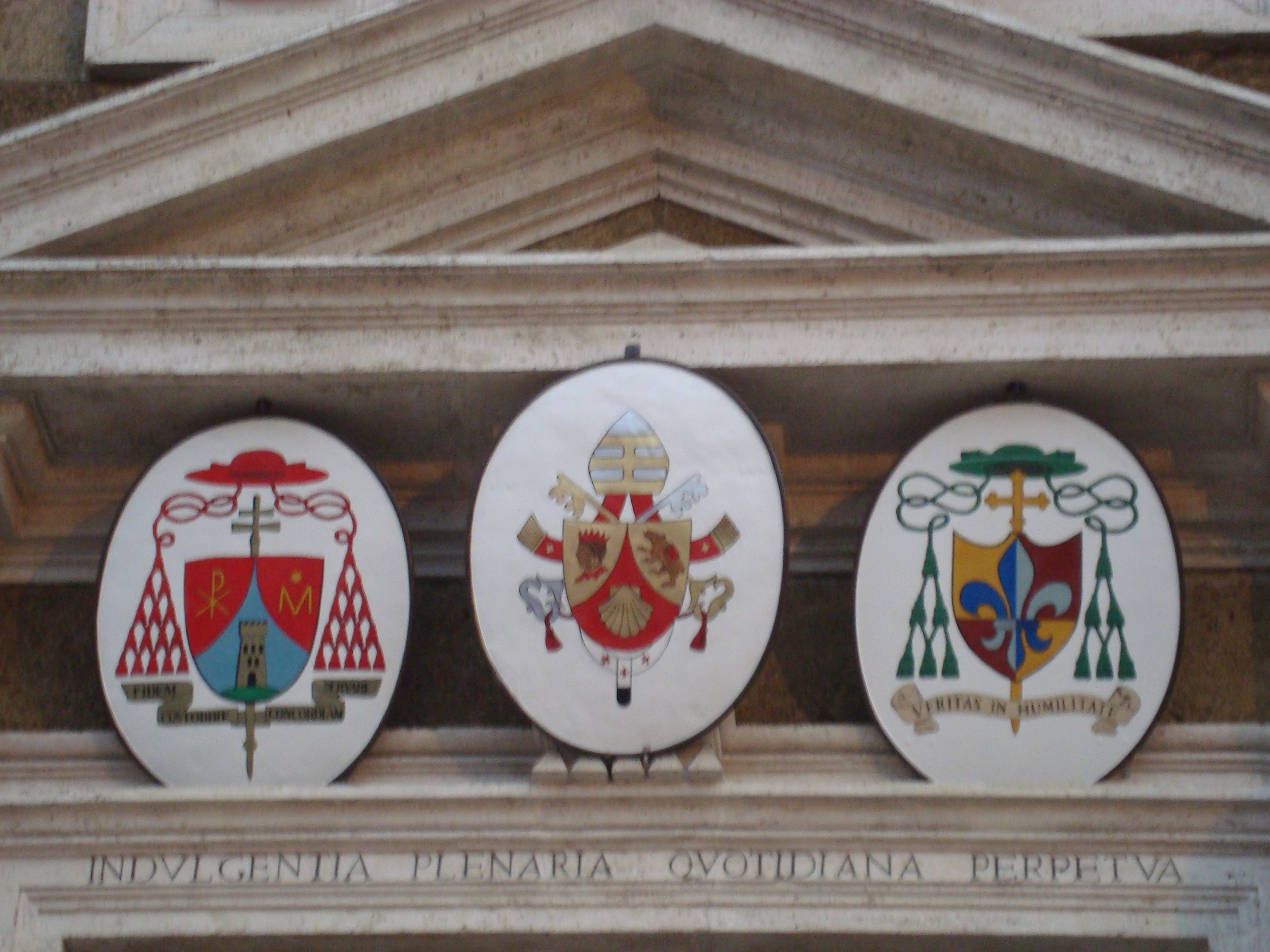 Arms and title of the cardinal-bishop Tarcisio Bertone on the froton of the Cathedral San Pietro in Frascati